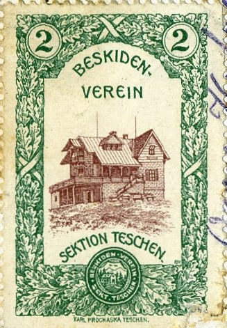 Stamp from old postcard